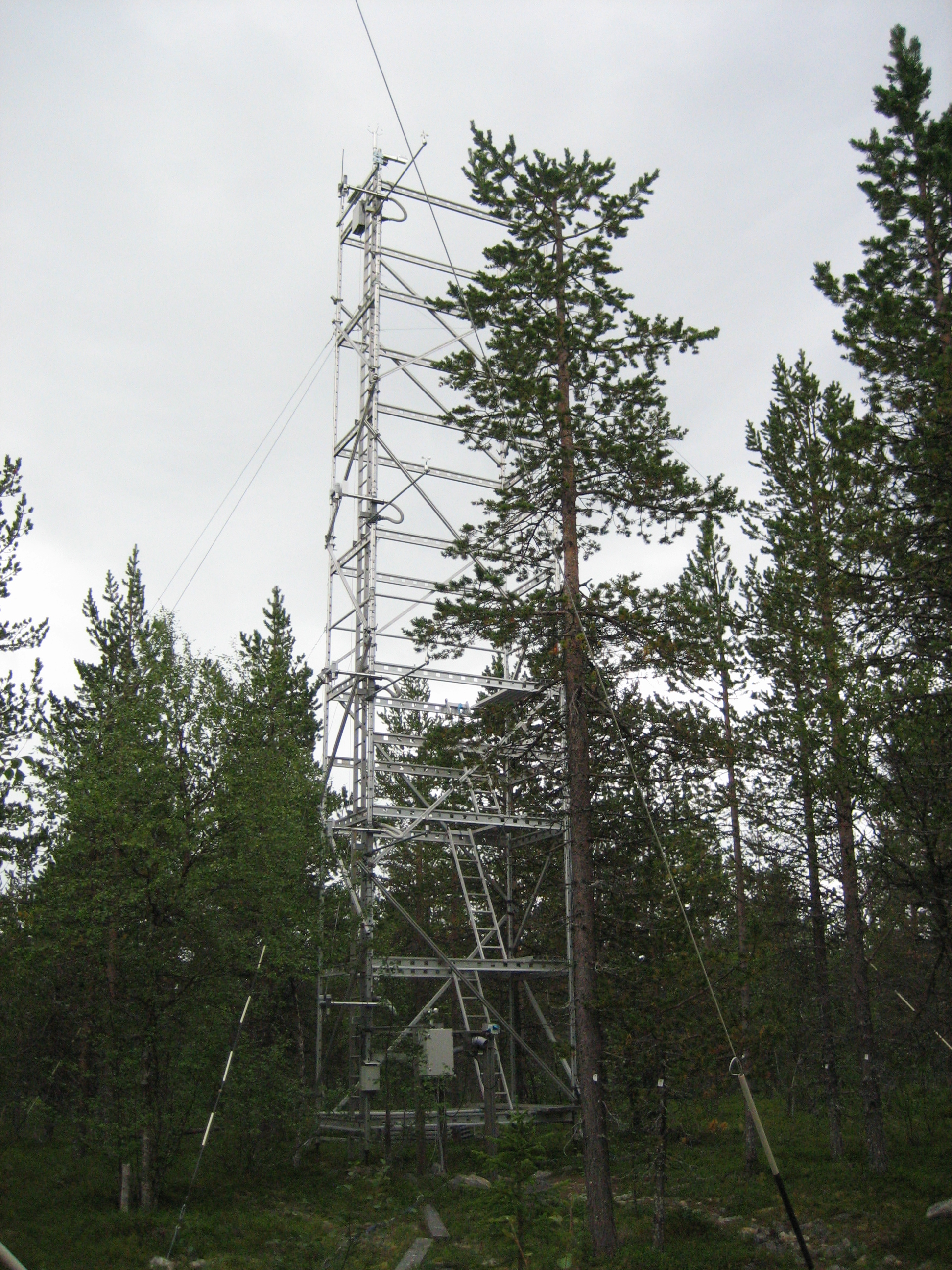 A sample collection tower of the SMEAR aerosol measurement station of Värriö research station of the University of Helsinki in Salla, Finland. The tower is used to study the extremely pure rural air of the remote Lapland.